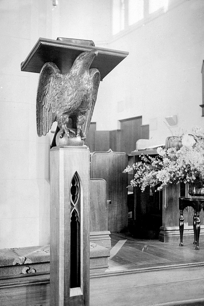 Eagle lectern carved in wood by Australian sculptor Walter Langcake; probably taken by him in a Melbourne church pre-WWII